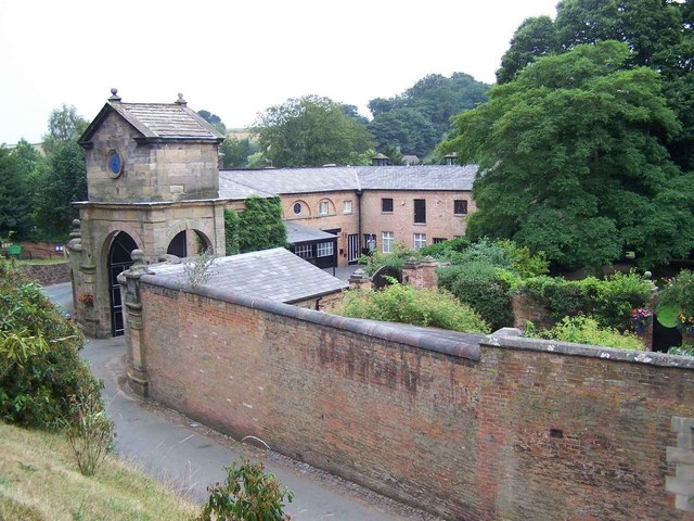 Entrance to Maer Hall. Taken from the churchyard